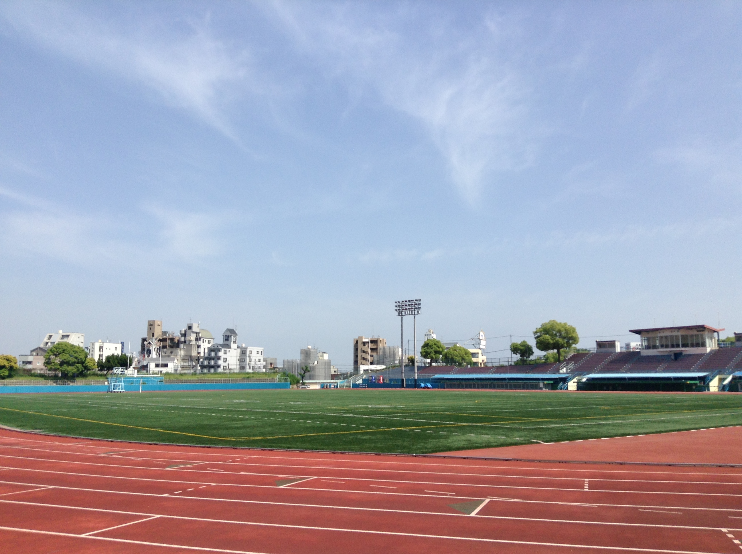 Oji Sports Center Stadium